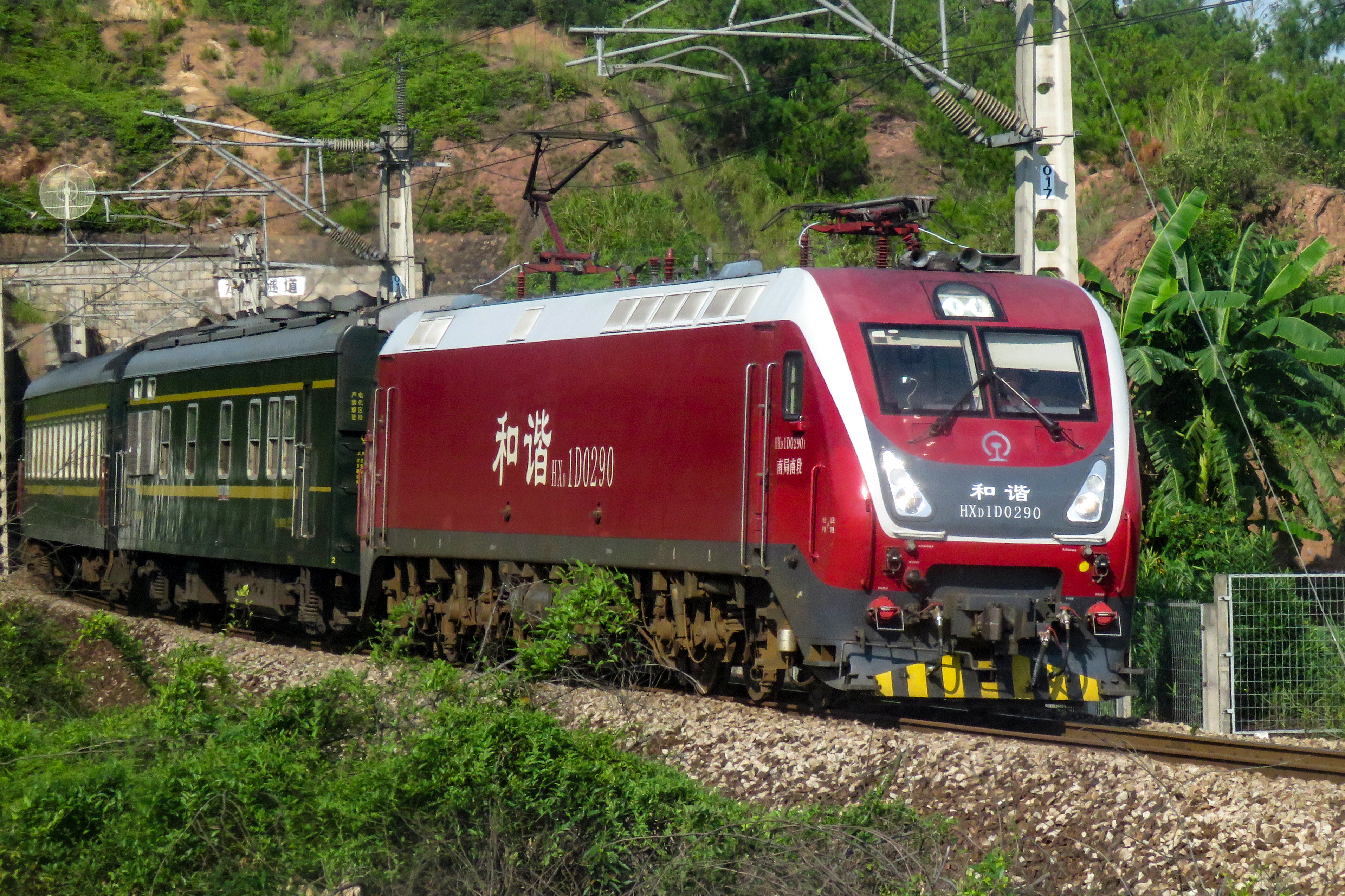 K677 from Xuzhou to Guangzhou East, passing the southbound tunnel.